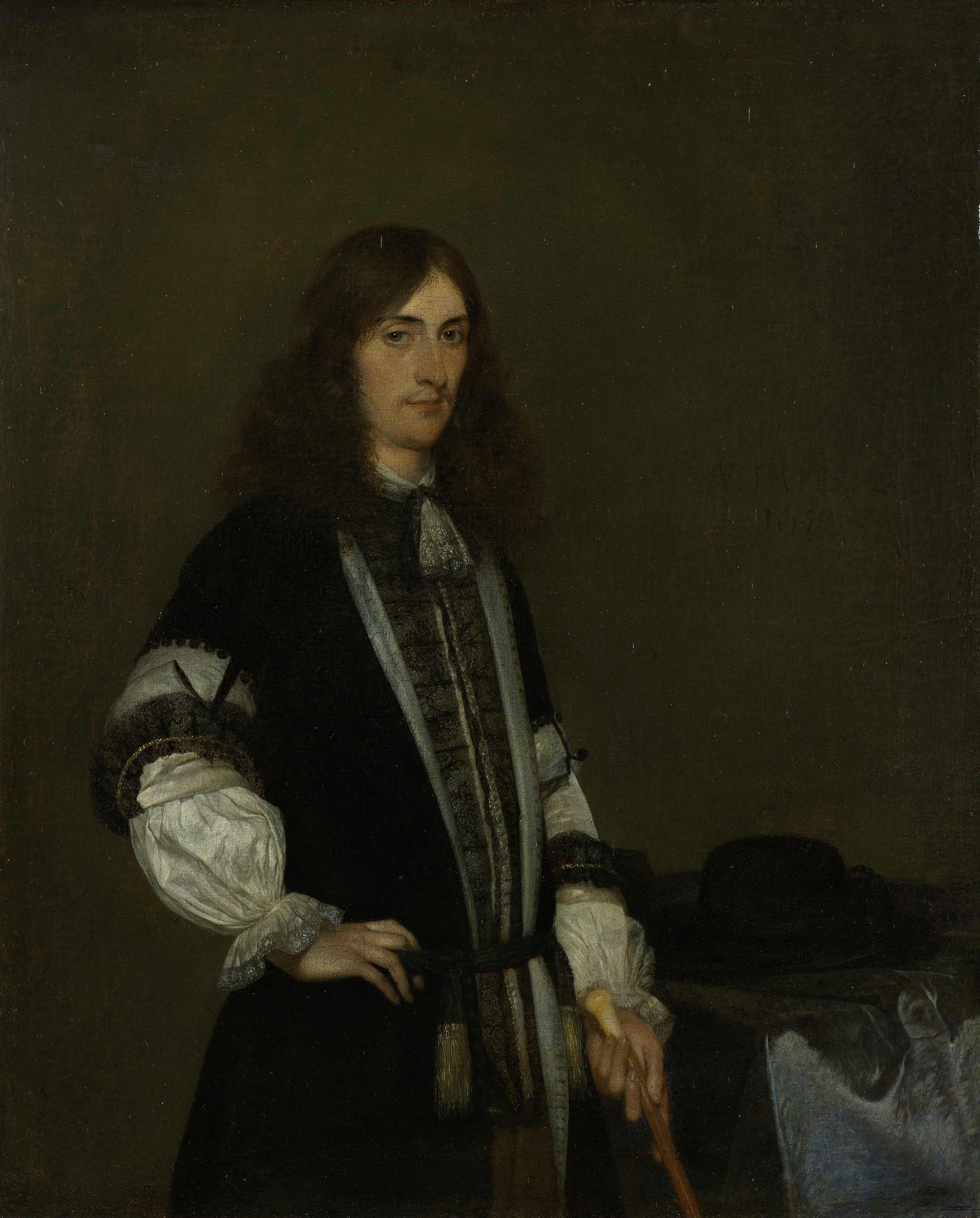 Pendant of File:Ter Borch Aletta Pancras.JPG